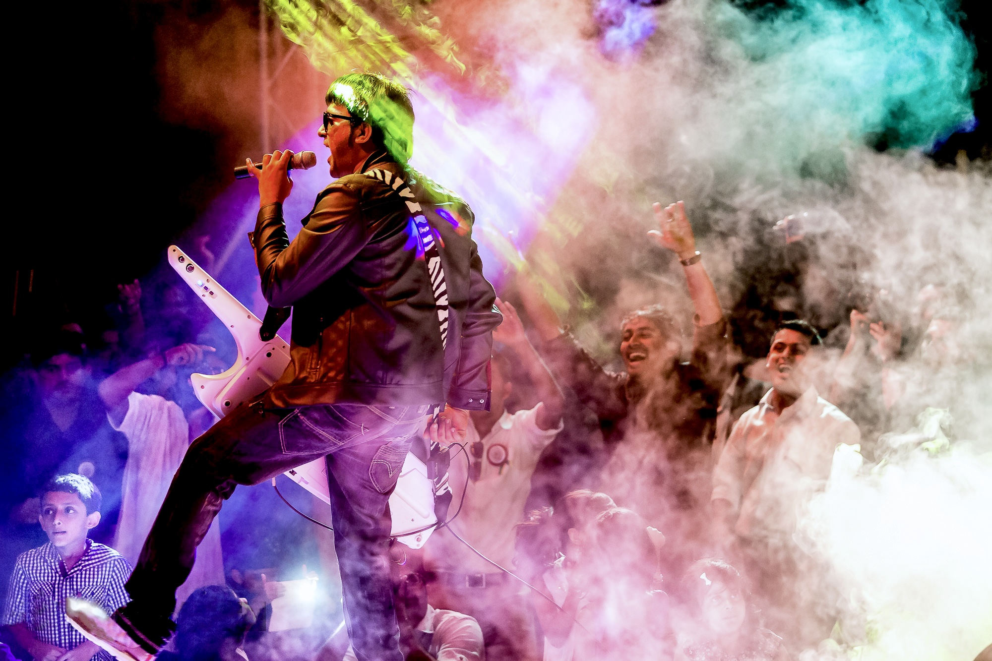 Stephen Devassy performing in Doha